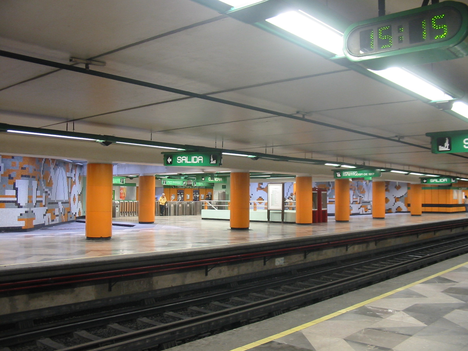 Metro Obrera Station in Mexico City